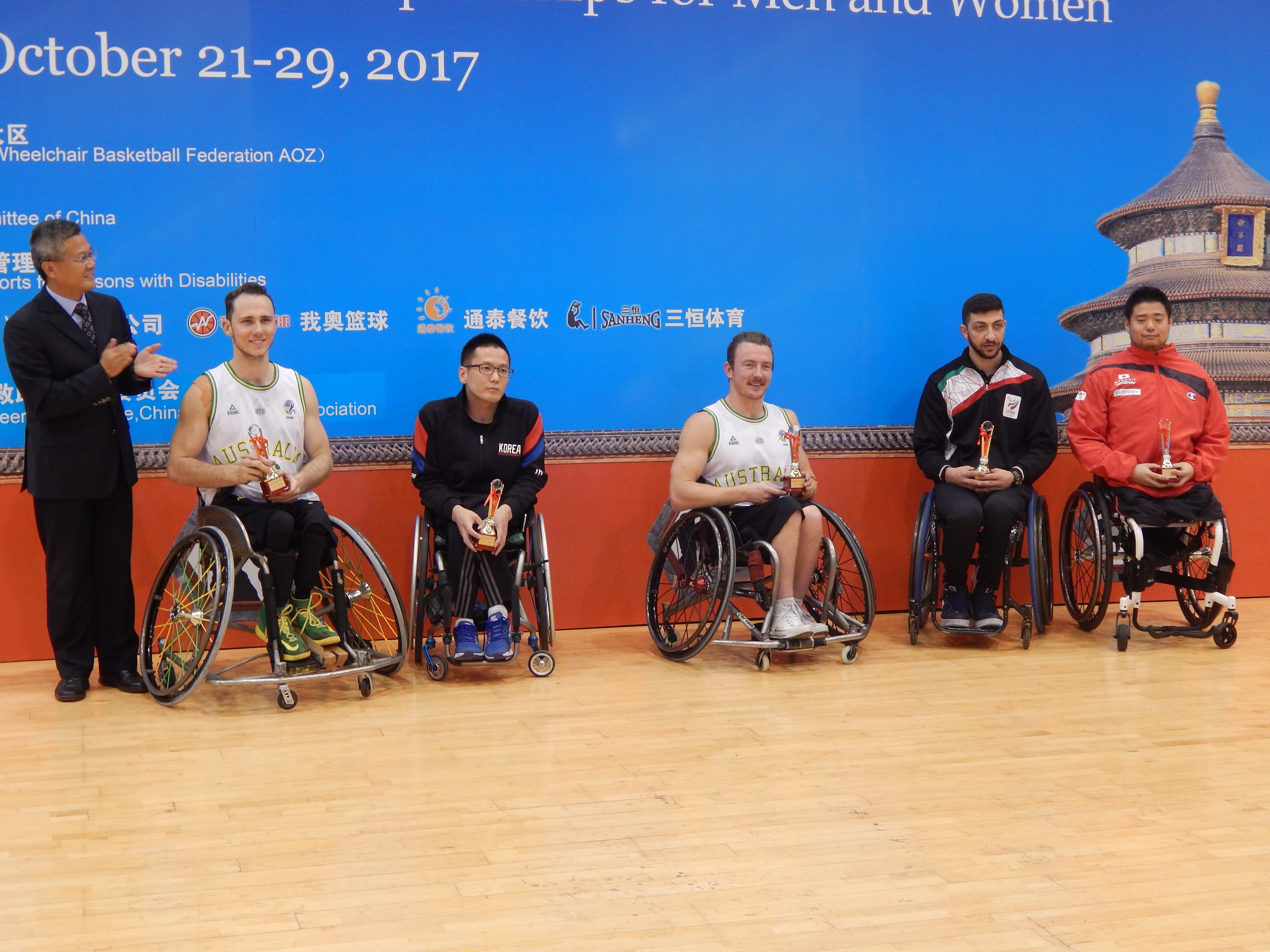 2017 IWBF Asia-Oceania Championships - Men's All-Star Five